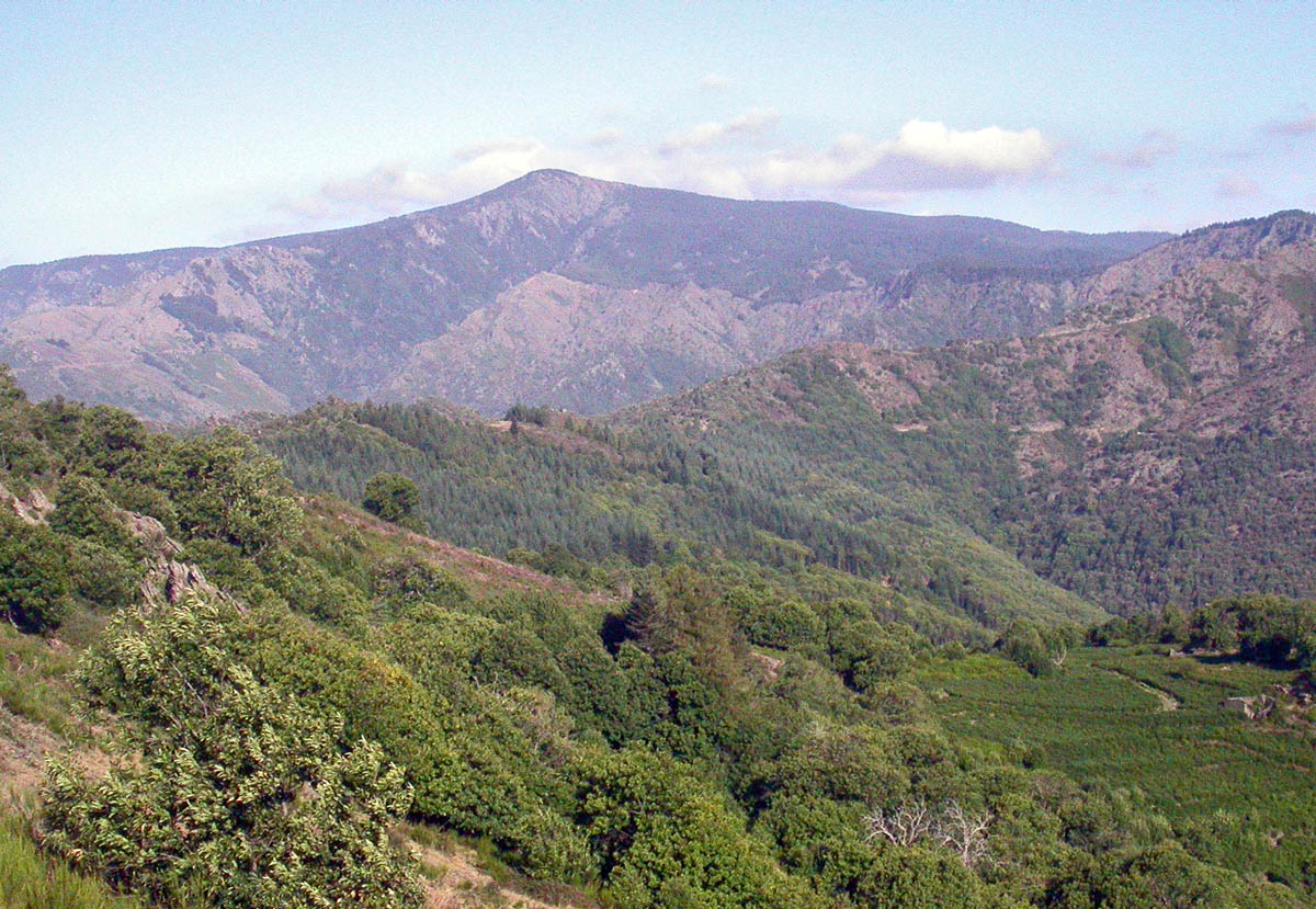 View of east face of Mont Aigoual (Massif Central, France). Photograph Robin Lacassin, 2006.